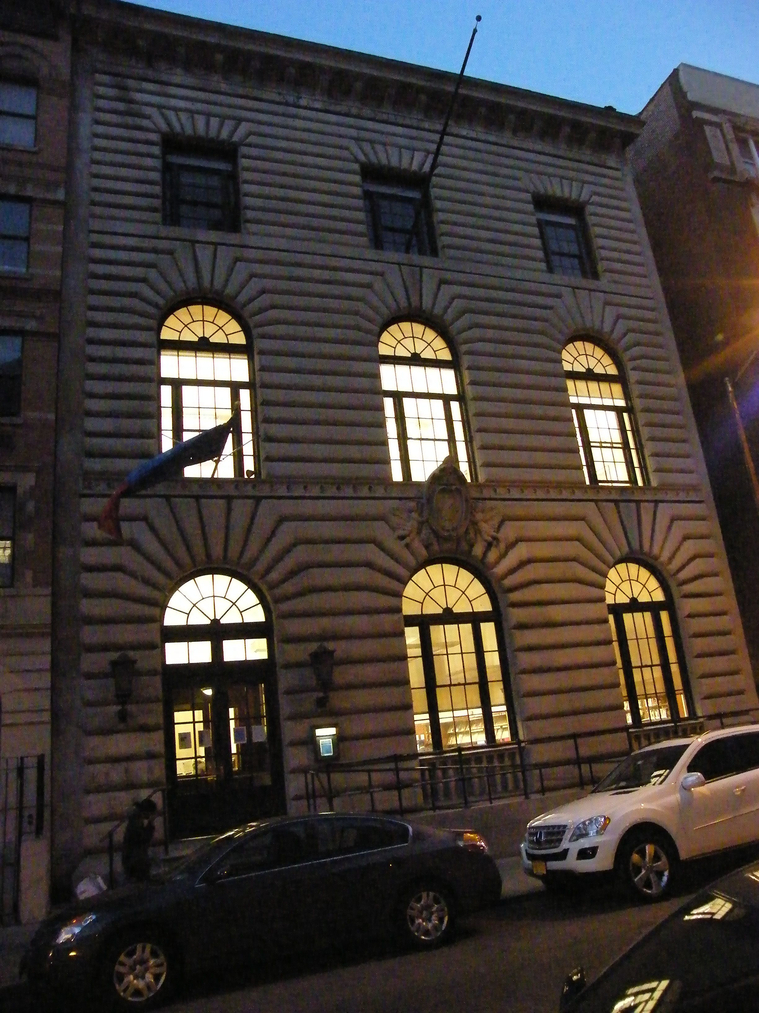 New York Public Library at 203 West 115th on National Register of Historic Places in New York City. NYCLPC designation 1977.